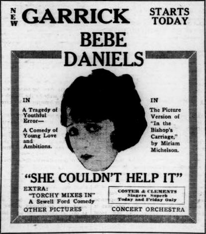 Newspaper advertisement for the American comedy film She Couldn't Help It (1920) with Bebe Daniels, on page 13 of the January 20, 1921 Duluth Herald.